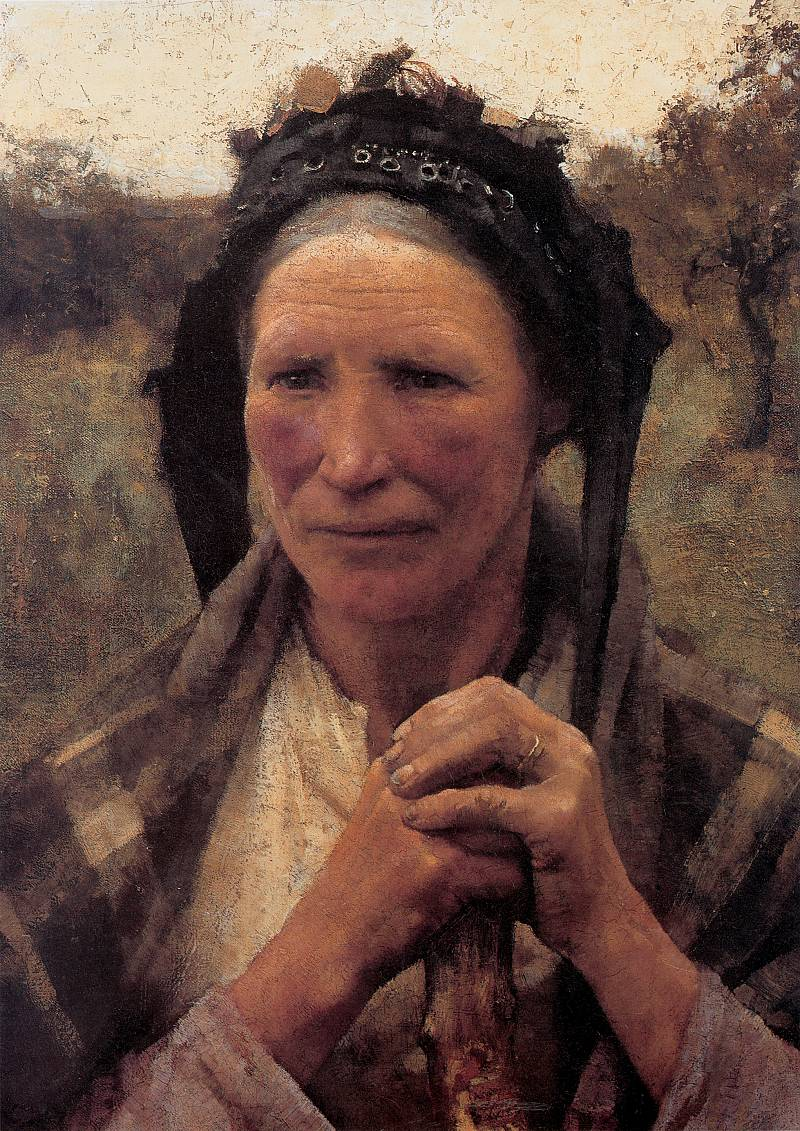 Head of a Peasant